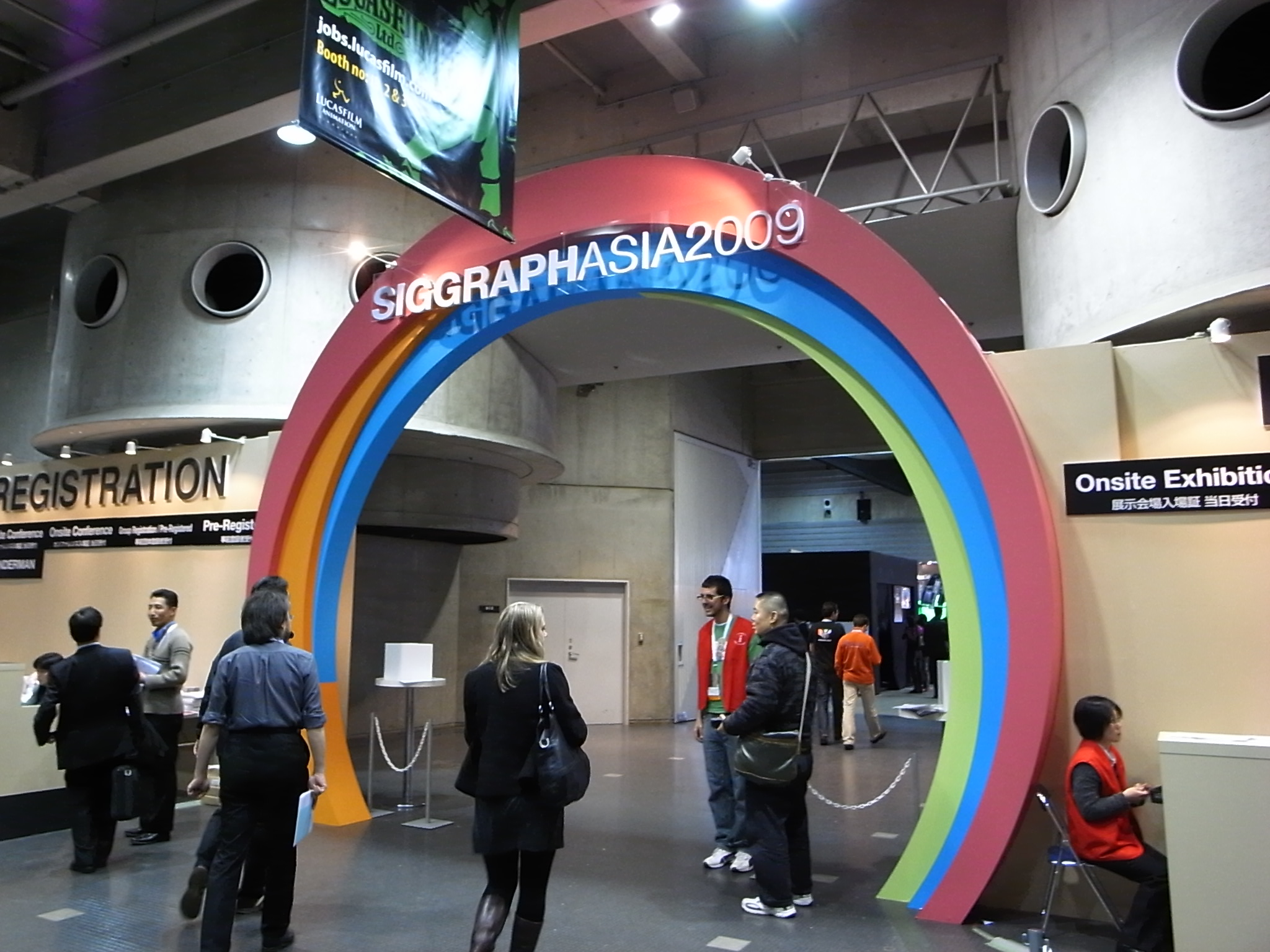 SIGGRAPH Asia 2009